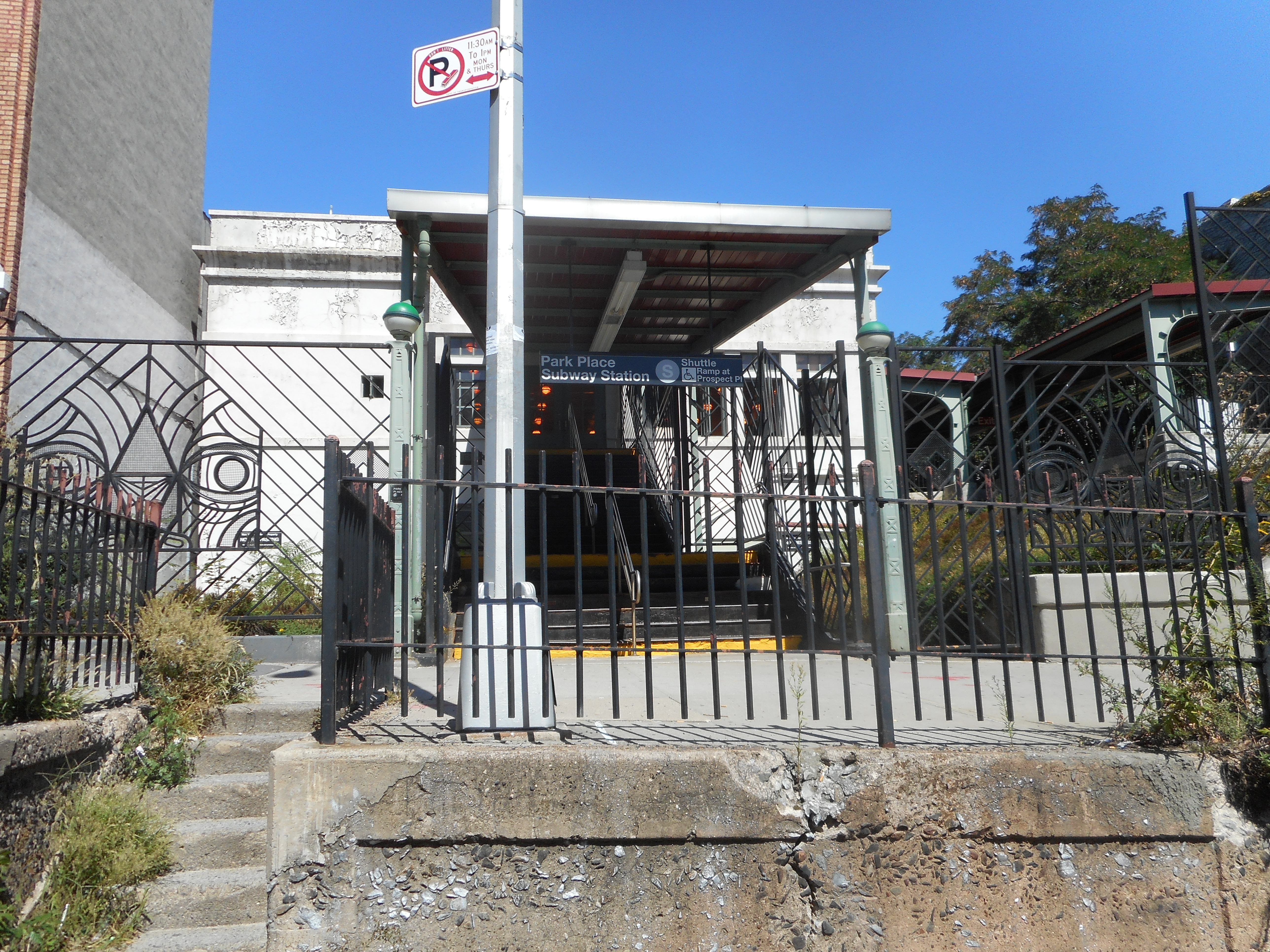 Station house to the Park Place (BMT Franklin Avenue Line) subway station. Further details to come later.